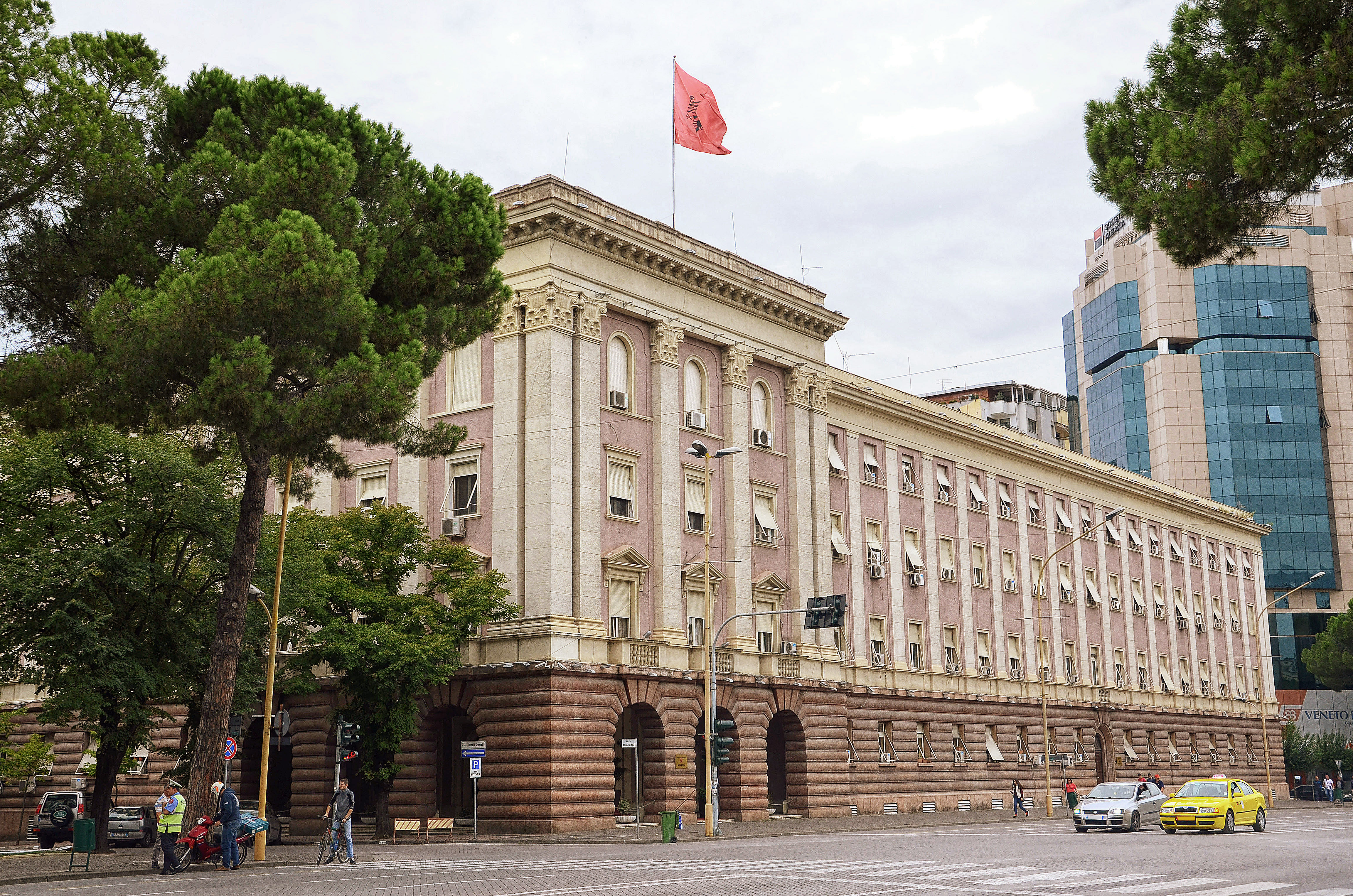 The HQs of National Assembly in Tirana, Albania